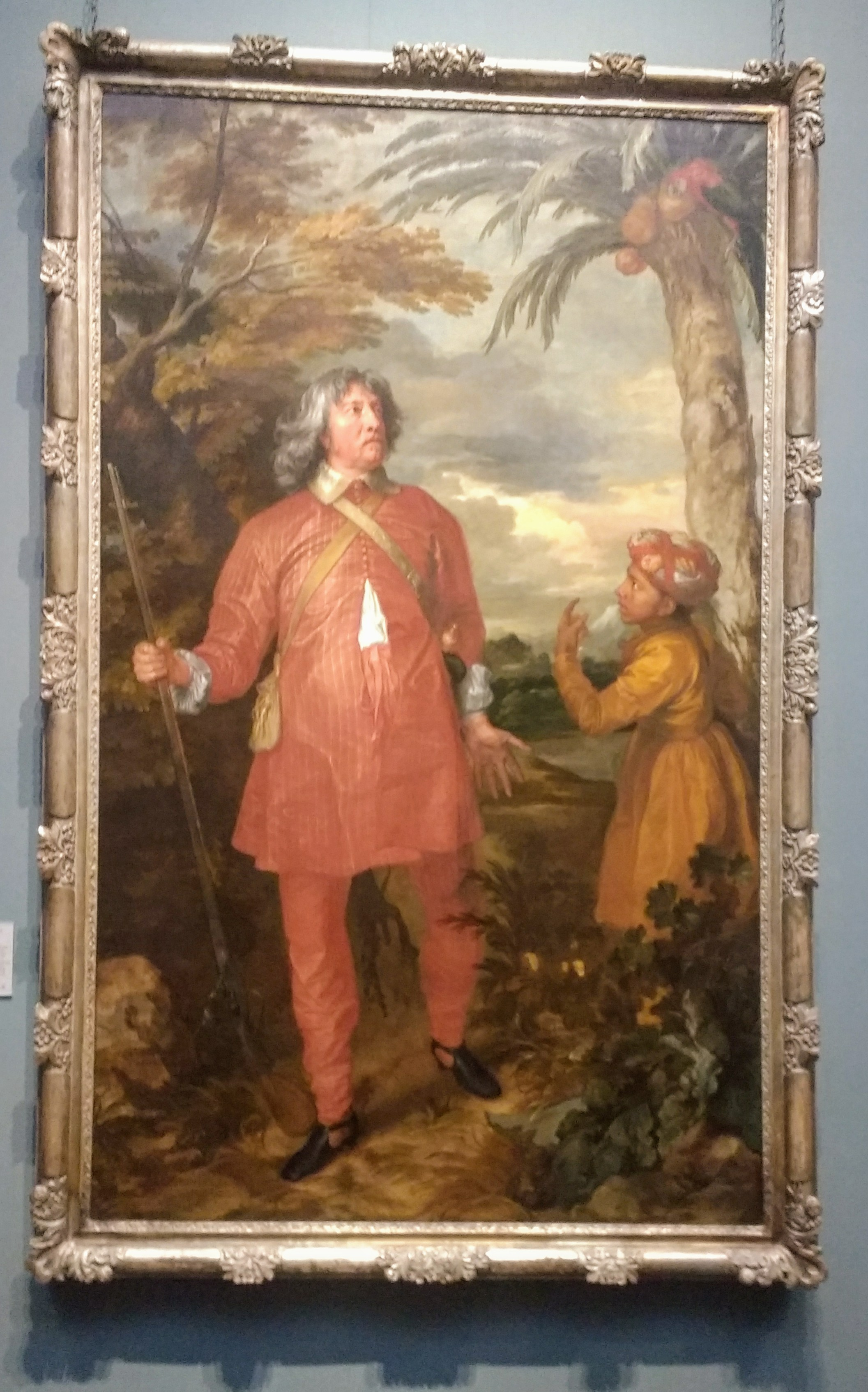 Portrait by Anthony van Dyck (1599-1641) of William Feilding 1st Earl of Denbigh, in the National Gallery, London. William Feilding visited Persia and India in 1631-3 and shortly after his return commissioned this portrait, which the National Gallery describes as "unusual." Van Dyck shows Feilding in oriental dress, out hunting with an Indian servant